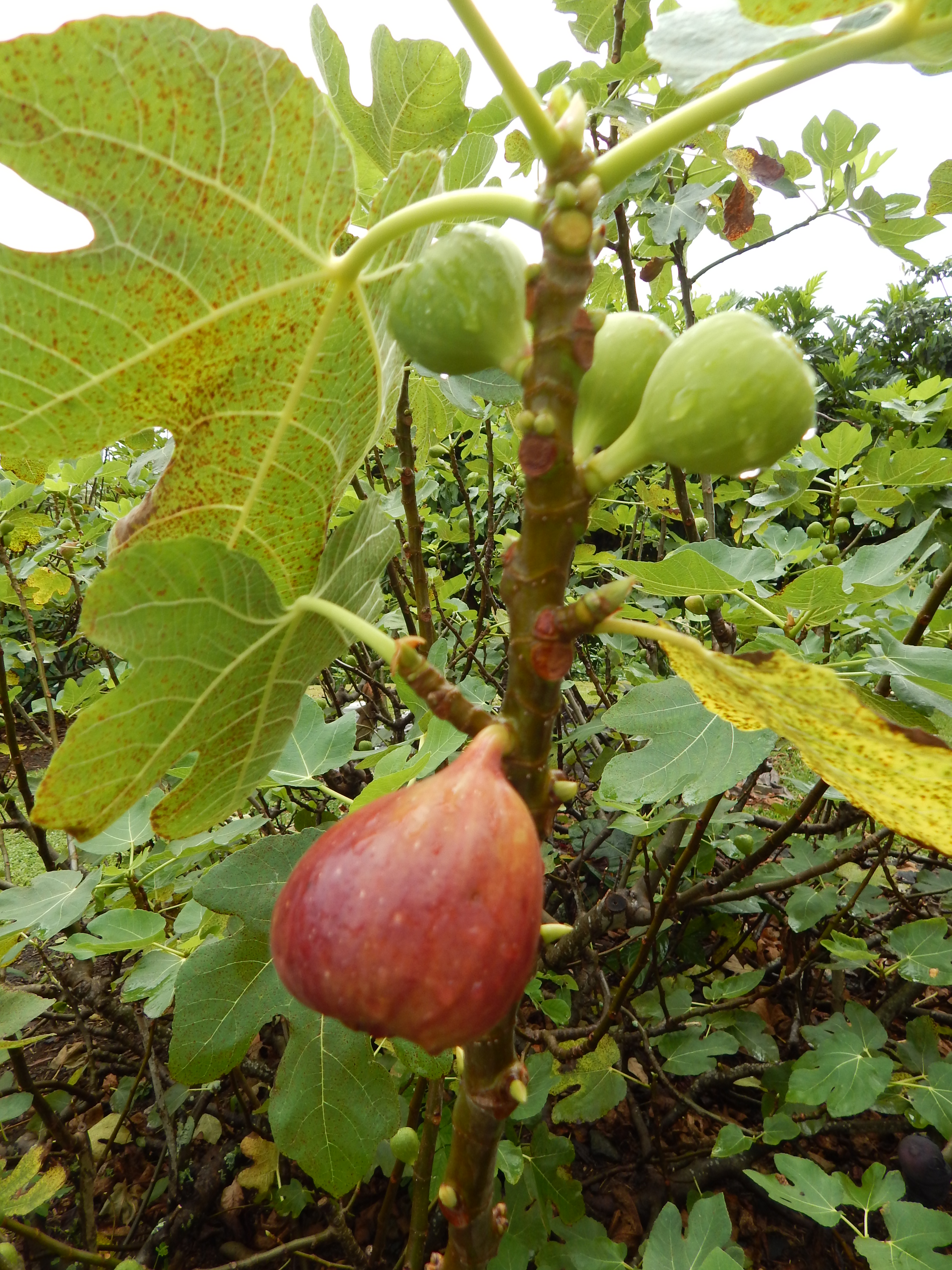 Ficus carica (Edible fig) Brown Turkey fruit at Pali o Waipio Huelo, Maui, Hawaii. September 25, 2014 #140925-1987 Image Use Policy